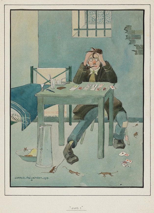 'Jug' by James Whale. British POW at Holzminden, the WW1 German Camp. Ink and watercolour. Backing size: 19.75x12.75 inches. Signed, inscribed and dated, 1918. Offered for sale by Abbott & Holder in February 2019.